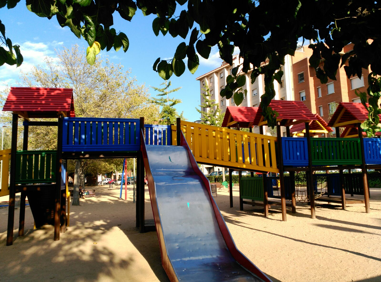 Parc del barri de Santa Anna.